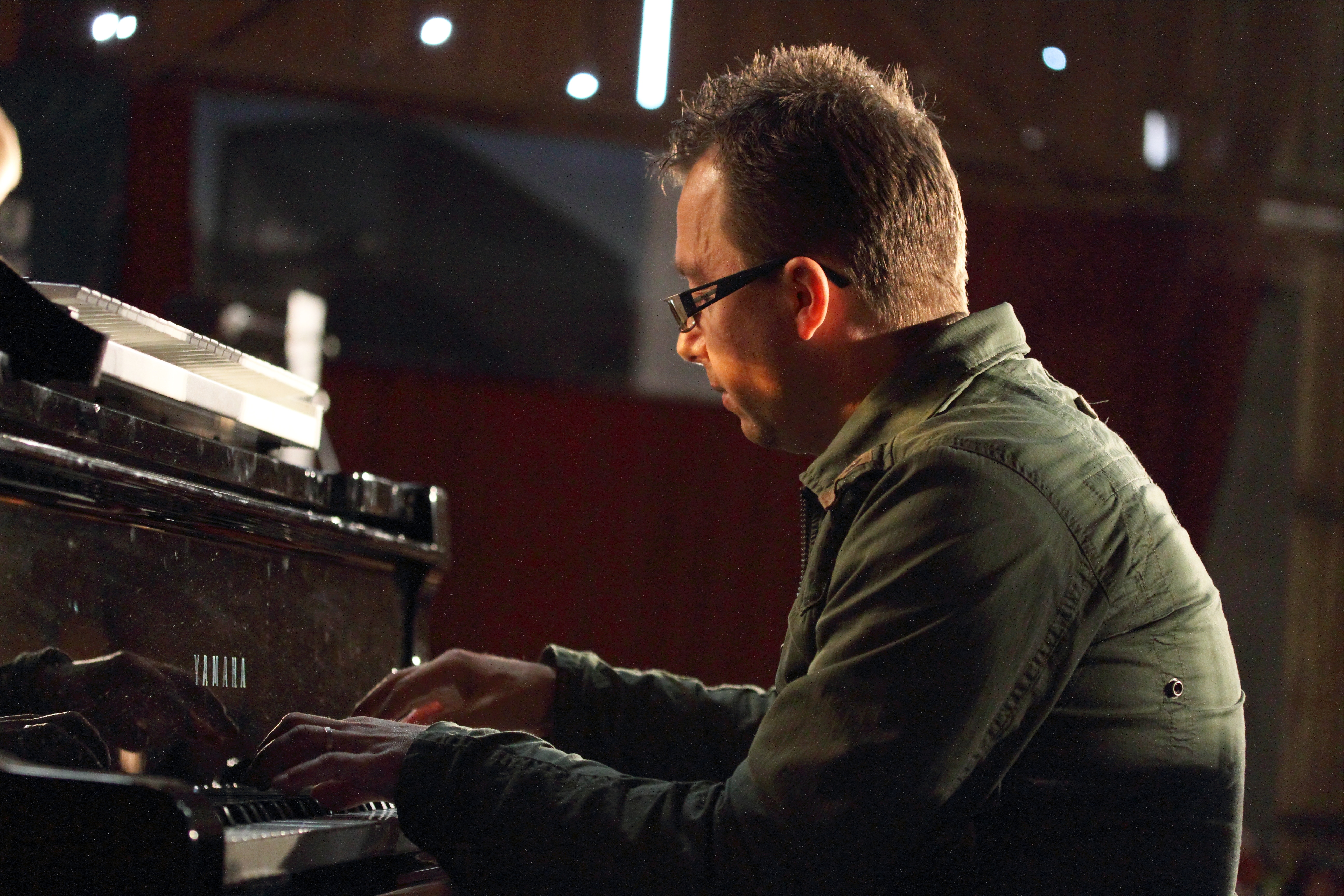 The AMC Trio from Slovakia at INNtöne Jazzfestival, Austria 2013.